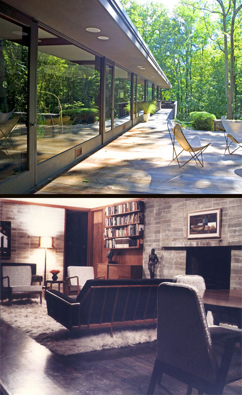 Interior and exterior of Mel Smilow's home in Usonia. Other information I am working with the smilow family to create this page.